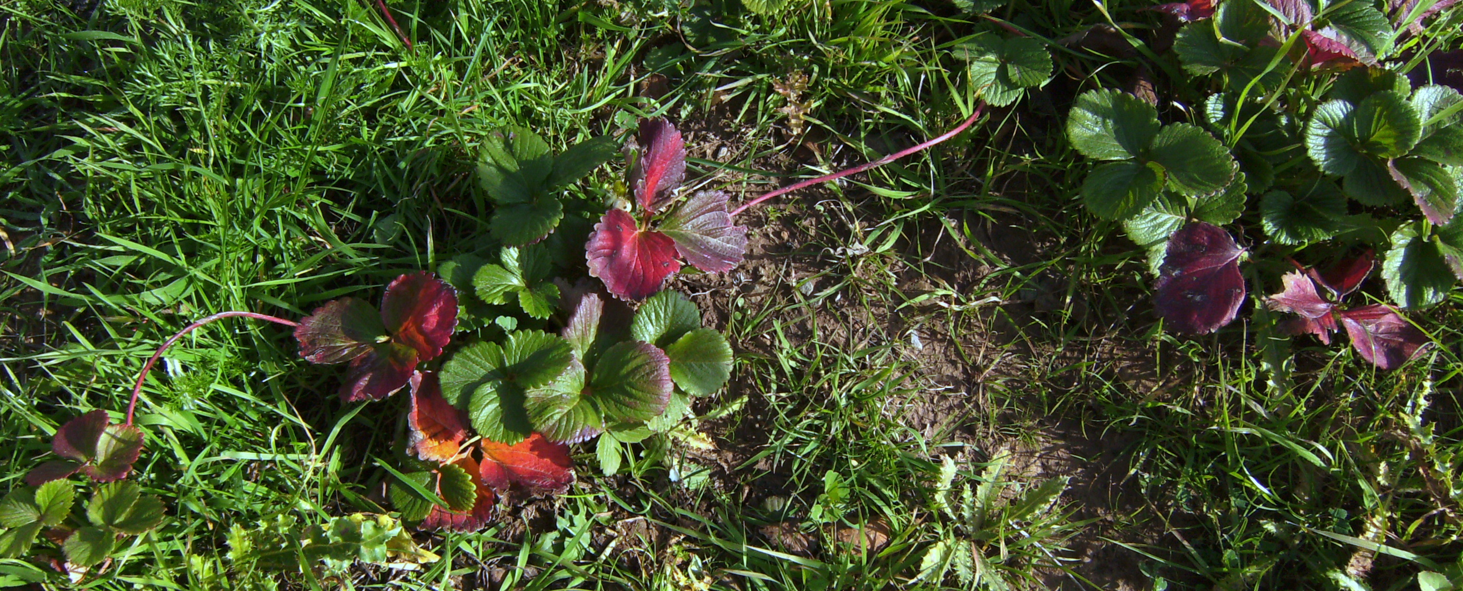 "Fragaria x Ananassa" plant in late autum with some leaves red, Castelltallat, Catalonia.